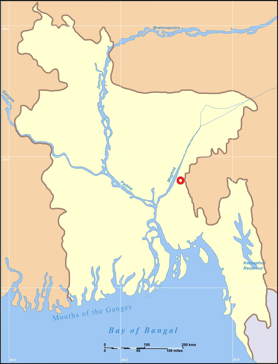 Location of Brahmanbaria